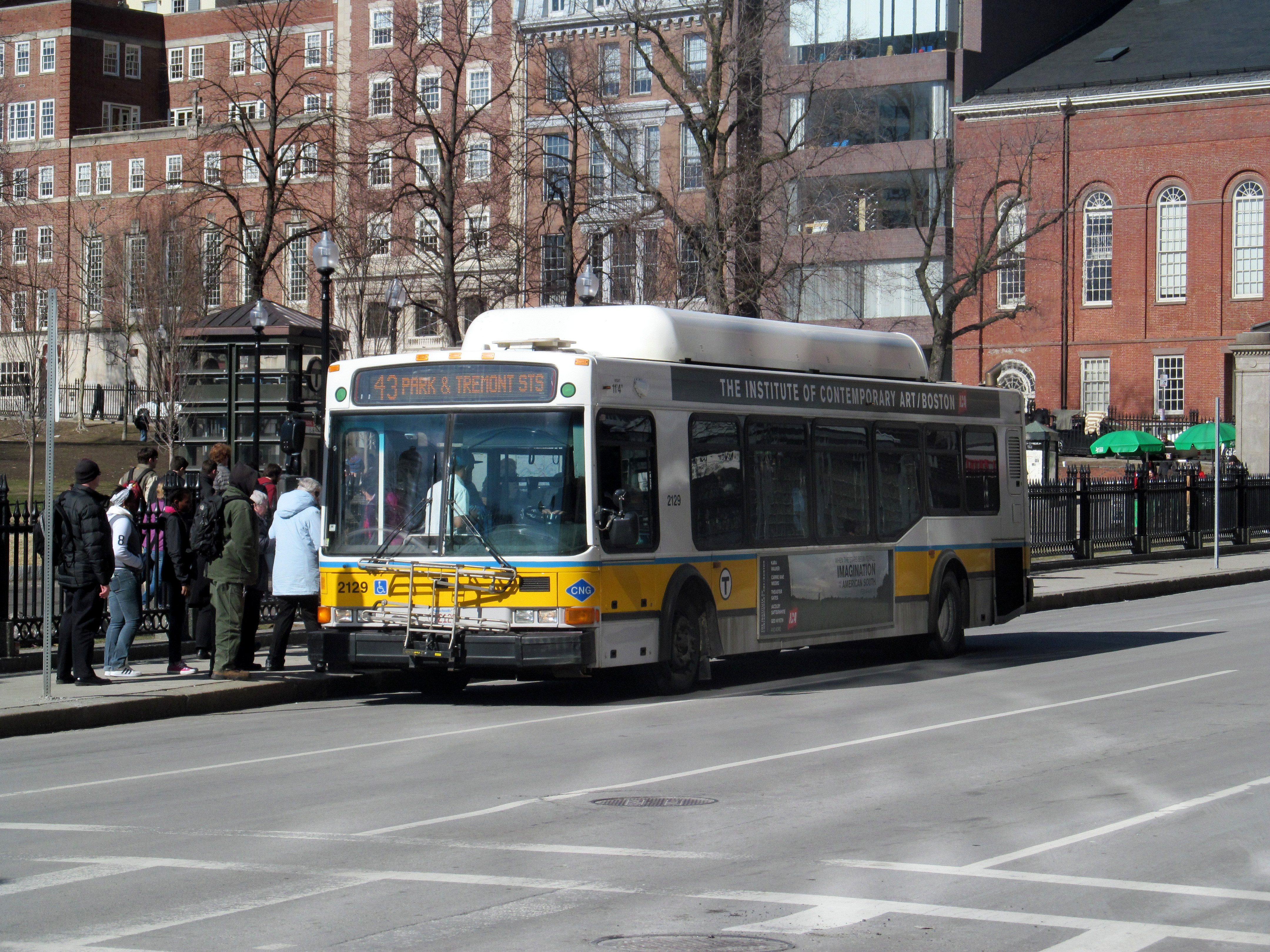 A #43 bus stops at Park Street station in March 2015